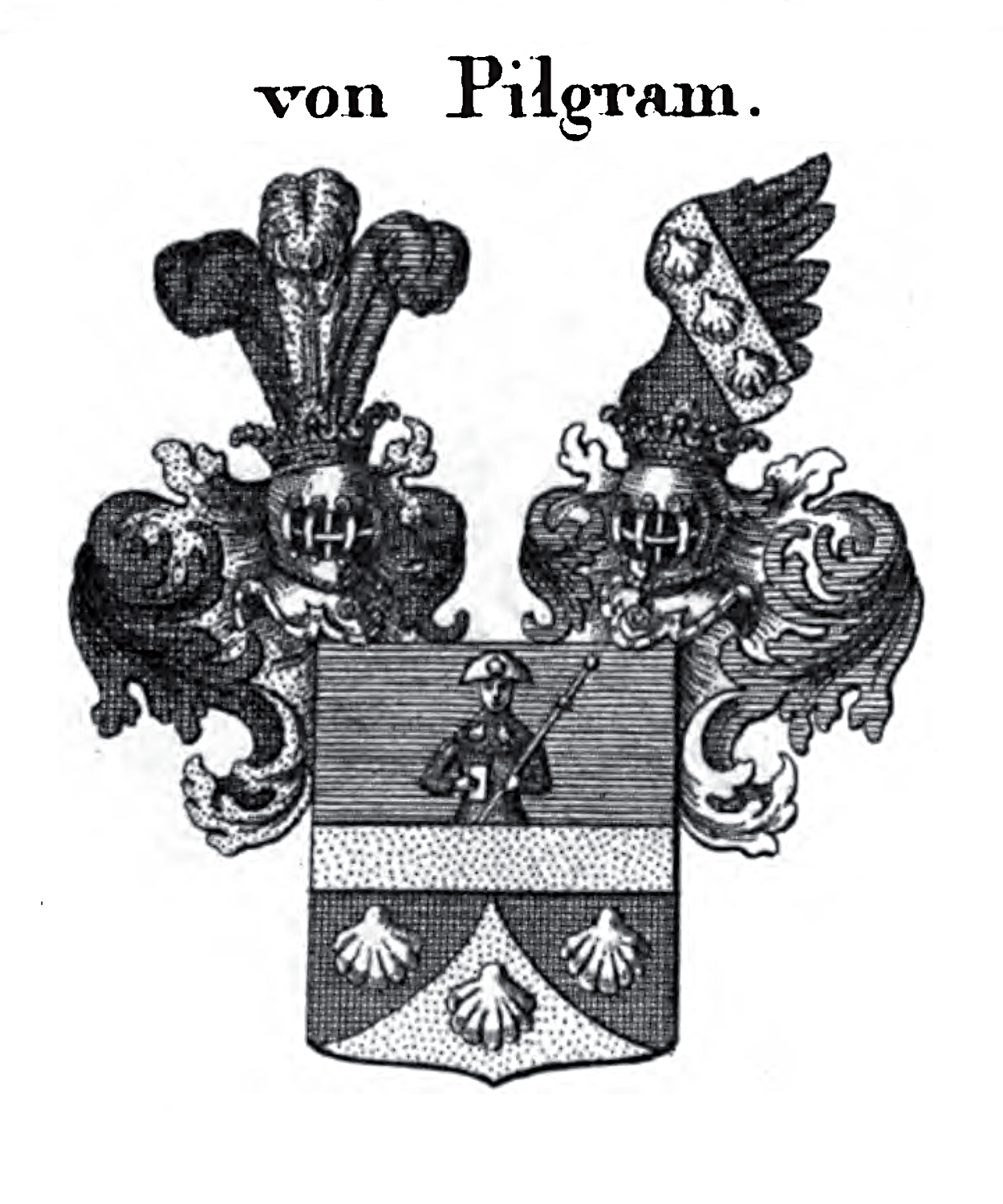 Coat of Arms of Pilgram (Bavaria)